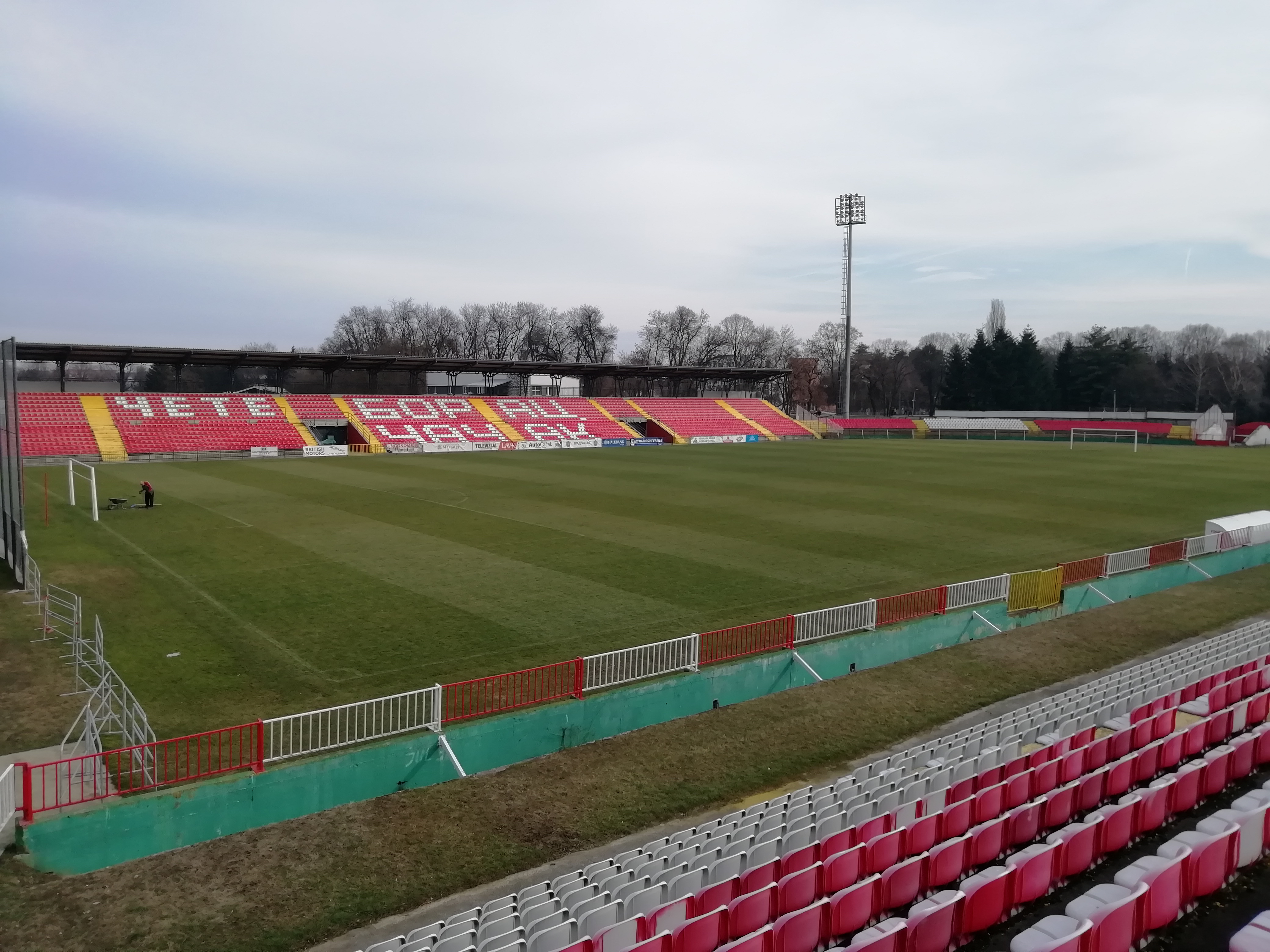 View on Football Field from West Stand of Čačak Stadium, February 2019